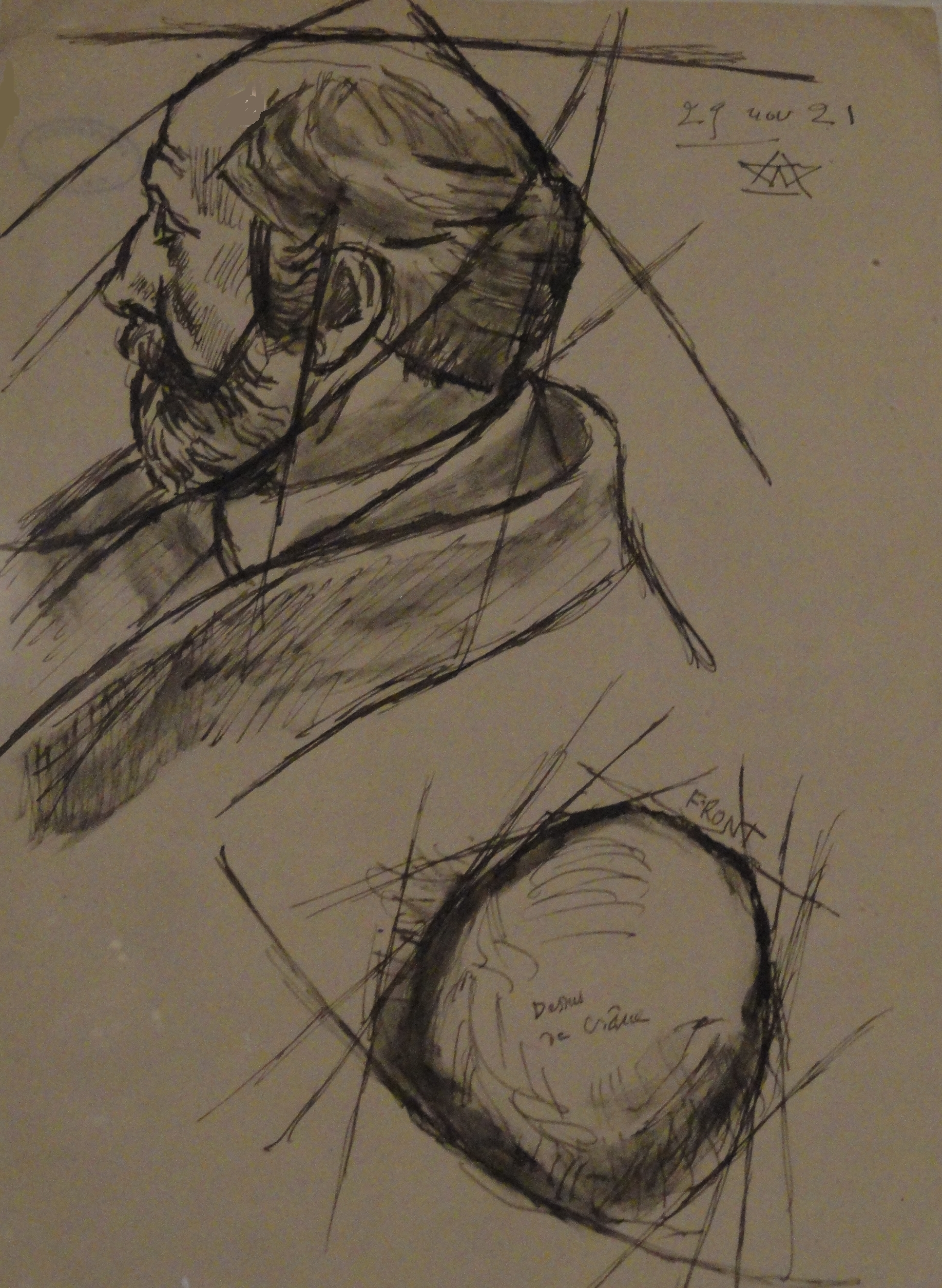 Architect Auguste Perret drawn by Bourdelle (1861-1929) in 1921